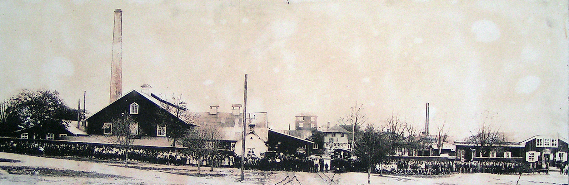 Photo of historical image from later part of 19th century, featured in the museum of Kosta Glasbruk. The image shows about 500 workers in front of the facilities of the great swedish glass making company i Kosta, Småland, Sweden in a period where productions were at its highest level